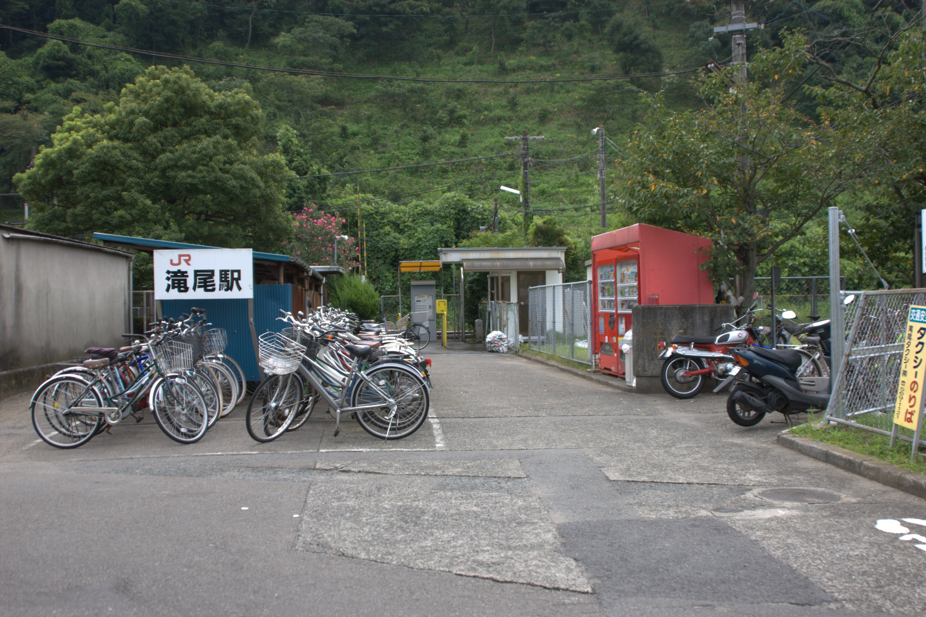 JR Kyushu Takio Station on Hohi Main Line